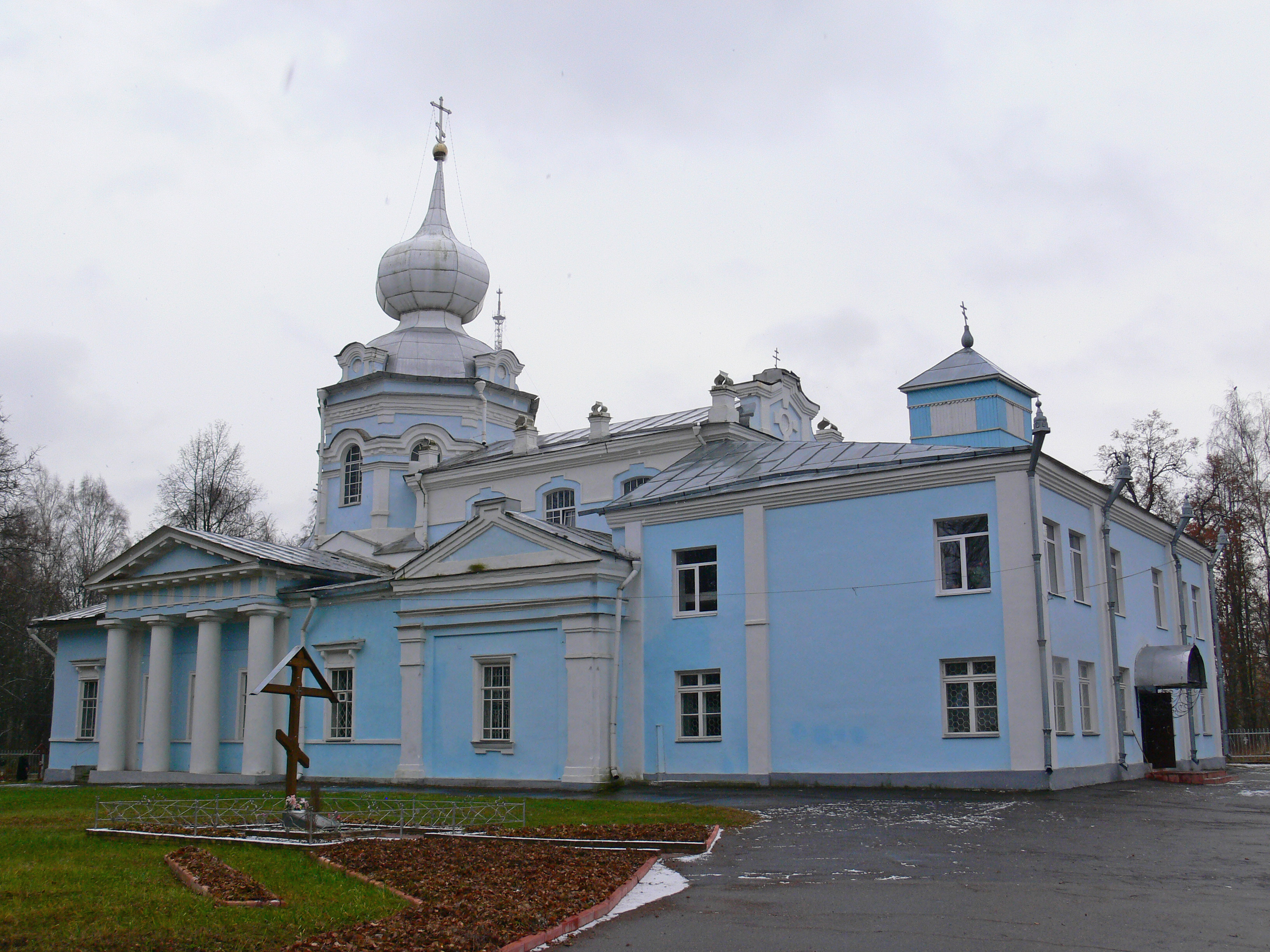 The Cathedral of the Dormition of the Theotokos in Borovichi. Novgorod oblast, Russia